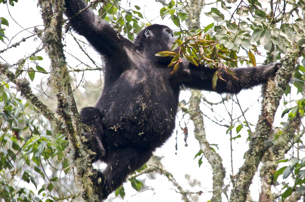 The Nshongi Gorilla Group is a Gorilla family in Uganda named after a river close to where this gorilla family was first sighted. (Information from: a fund raising project for the Ugandan gorillas)